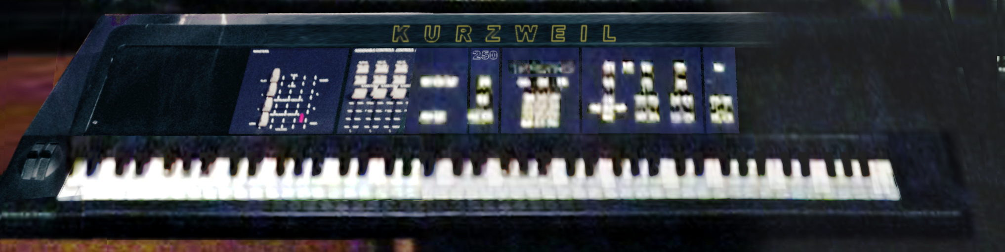 Kurzweil K250 merging two images: [right] Kurzweil K-250, Museum of Making Music [left] Owen Bradley's studio, exhibited at Country Music Hall of Fame and Museum